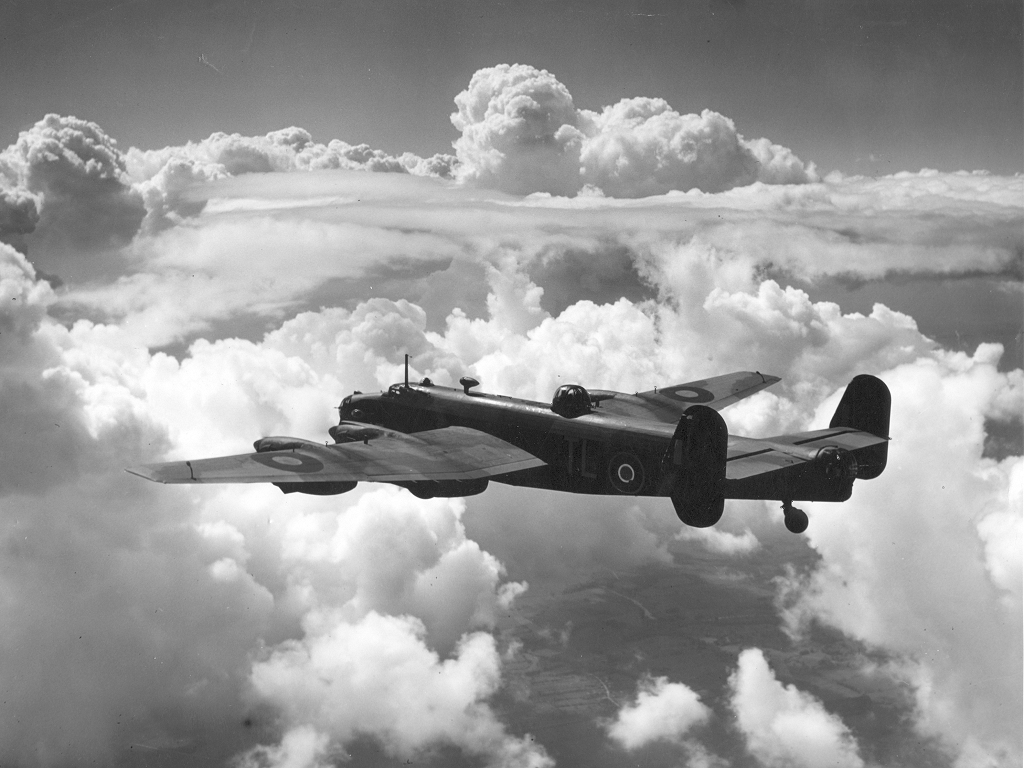 A Royal Air Force Handley Page Halifax Mark II Series I (s/n W7676, 'TL-P') of No. 35 Squadron RAF based at Linton-on-Ouse, Yorkshire (UK), being piloted by Flight Lieutenant Reginald Lane, (later Lieutenant-General, RCAF), over the English countryside. Flt Lt Lane and his crew flew twelve operations in W7676, which failed to return from a raid on Nuremberg on the night of 28/29 August 1942, when flown by Flt Sgt D. John and crew.